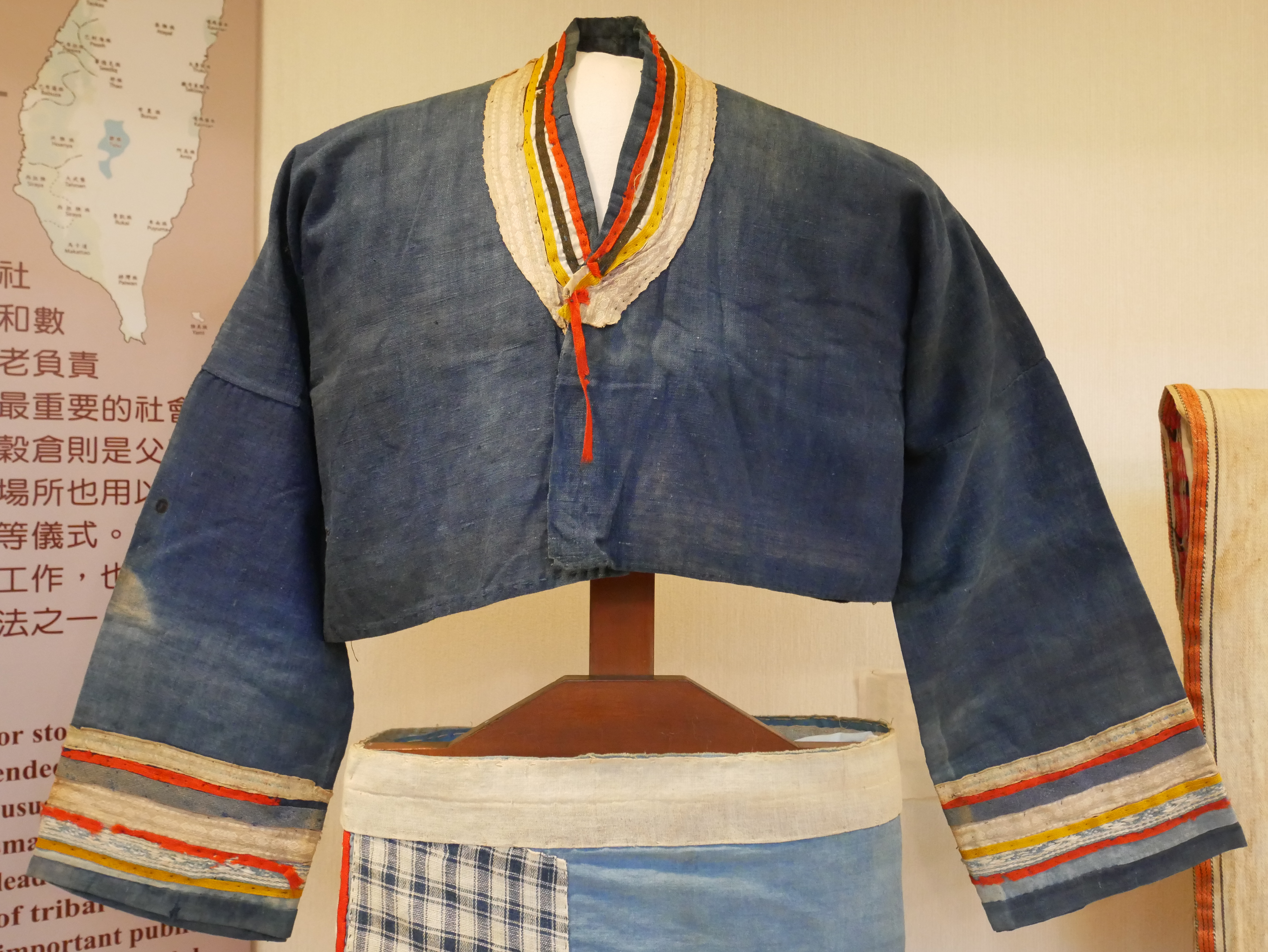 鄒族達邦社（臺南州嘉義郡蕃地達邦社）女子上衣（昭和四年（1929年）3月入藏臺北帝國大學），臺北市大安區學府次分區學府里